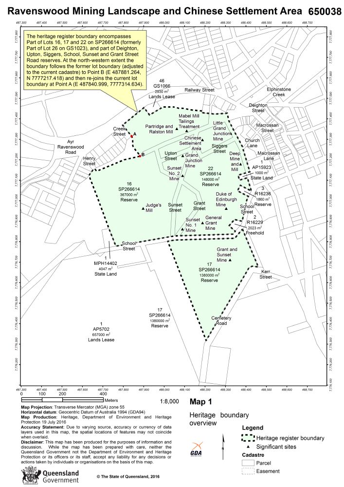 650038 - Ravenswood Mining Landscape and Chinese Settlement Area - Map 1 (2016)